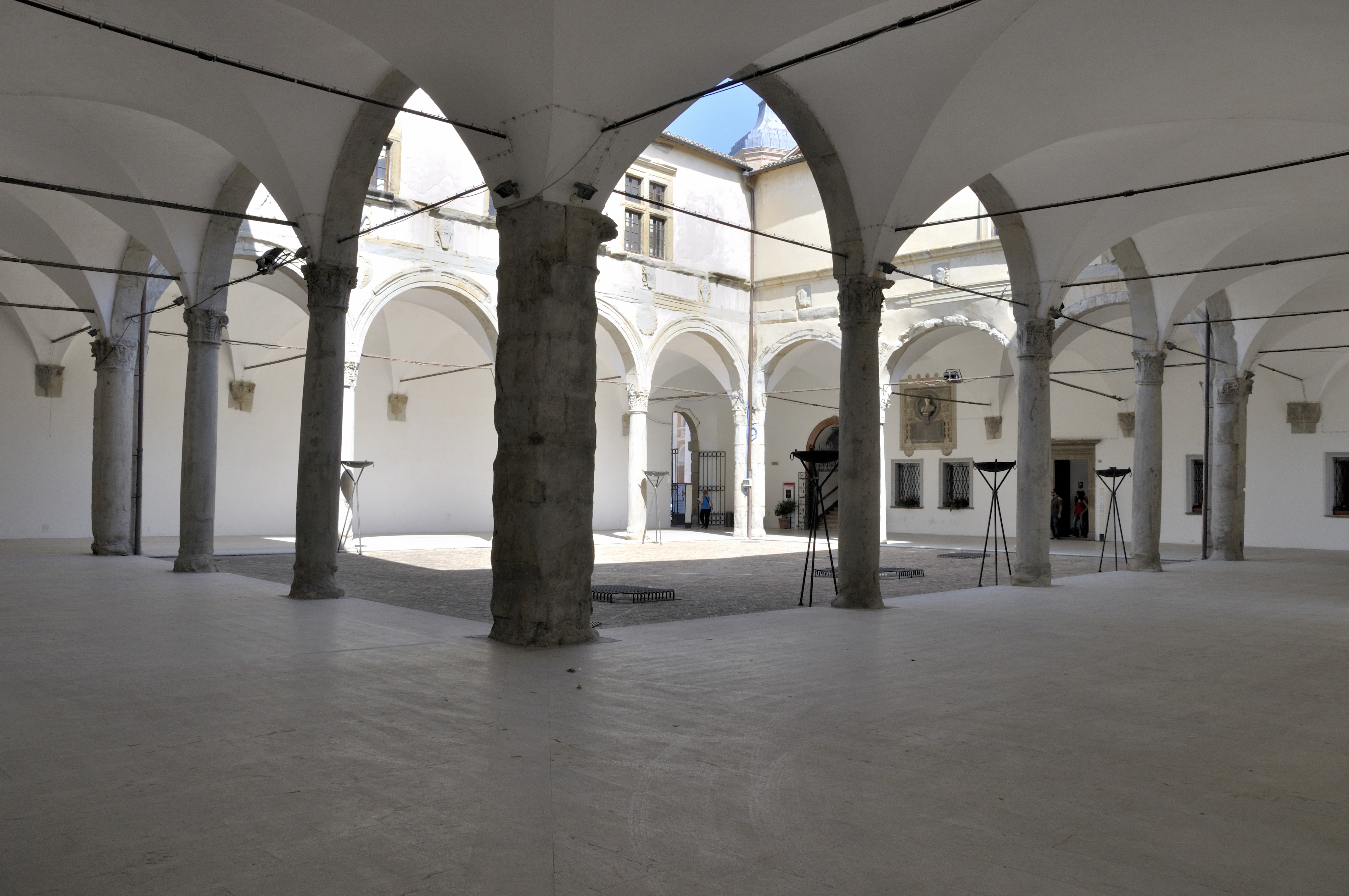 The courtyard of the Ducal Palace of Camerino.